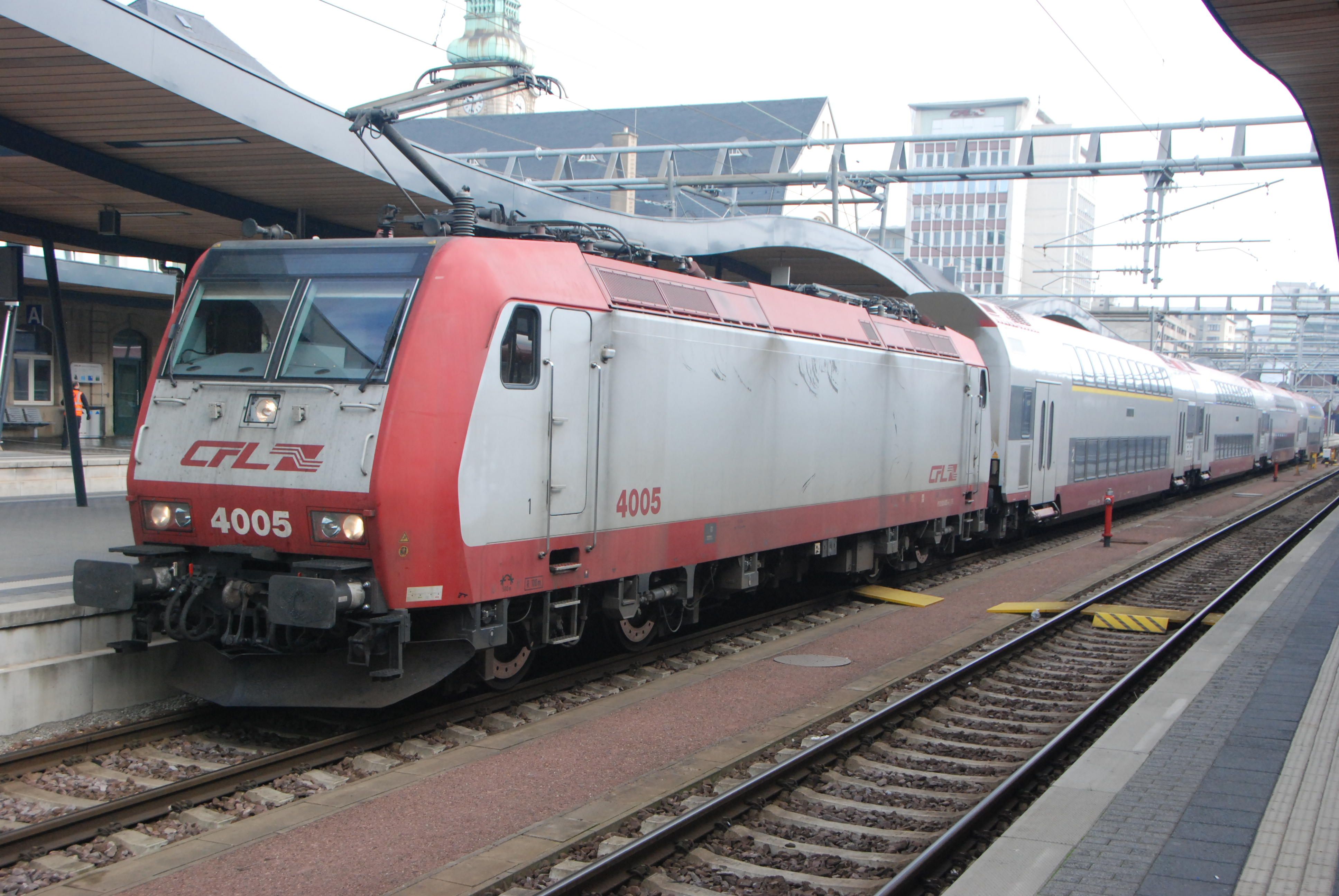 CFL 4005 with a set Dosto double decker coaches at Luxembourg Gare.